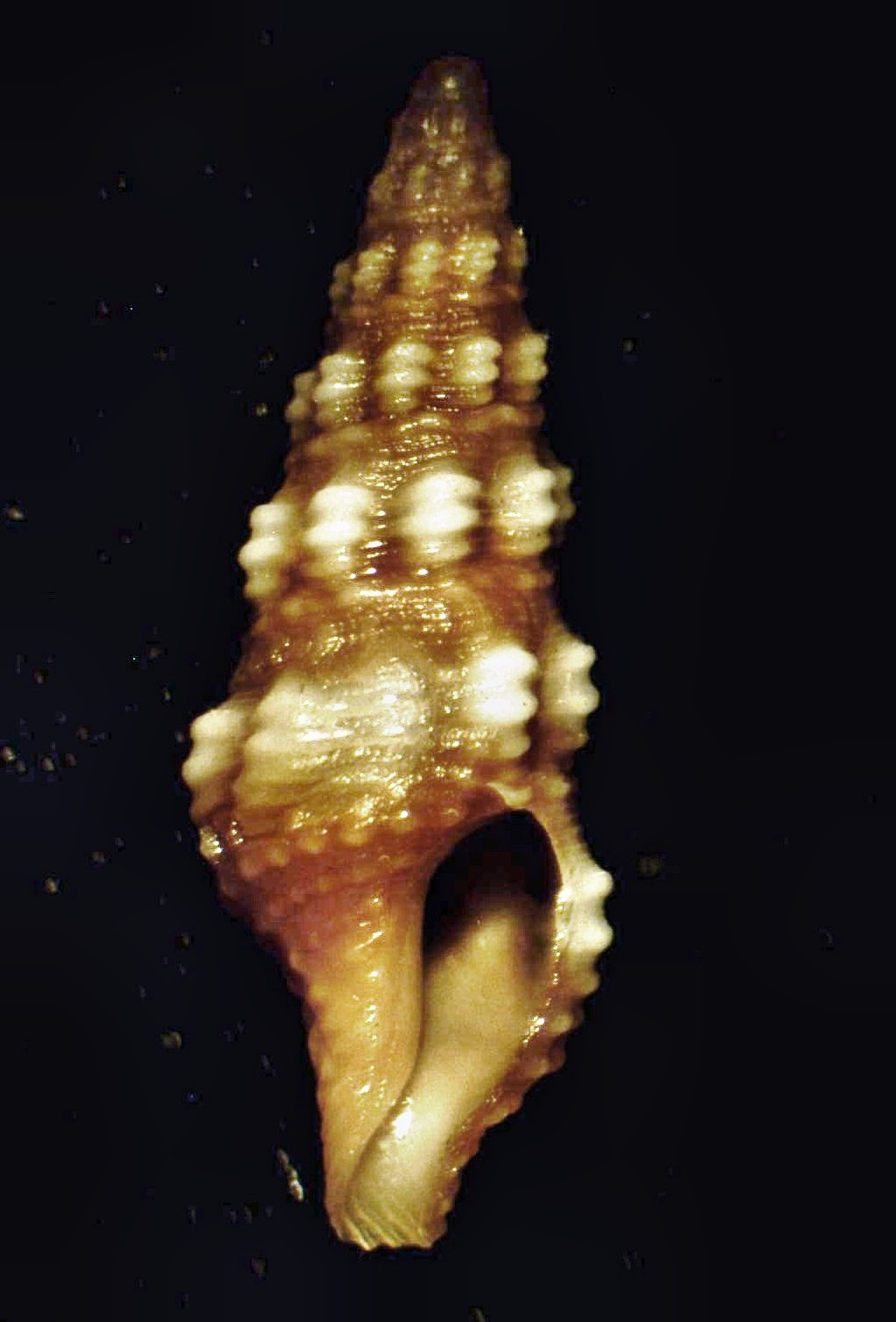 Pilsbryspira leucocyma W. H. Dall, 1883, a turrid snail from the family Pseudomelatomidae; Panama